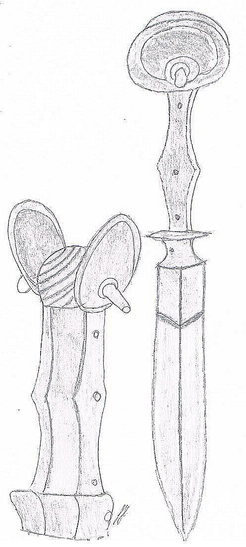 Ear-Dagger